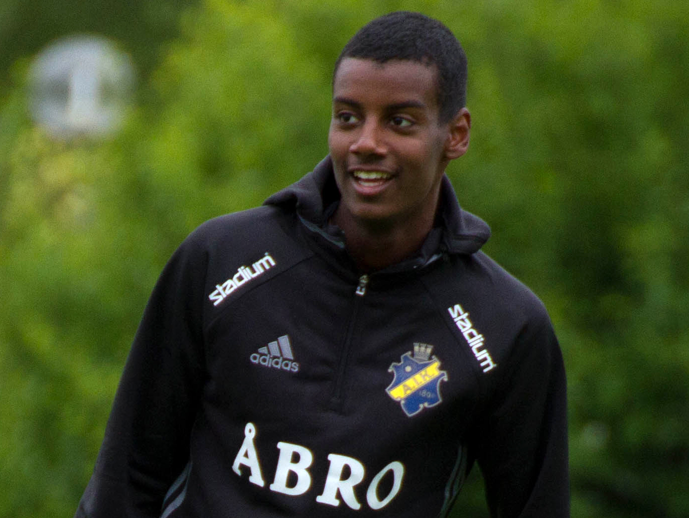 Alexander Isak (AIK striker) in May 2016 during a training session.